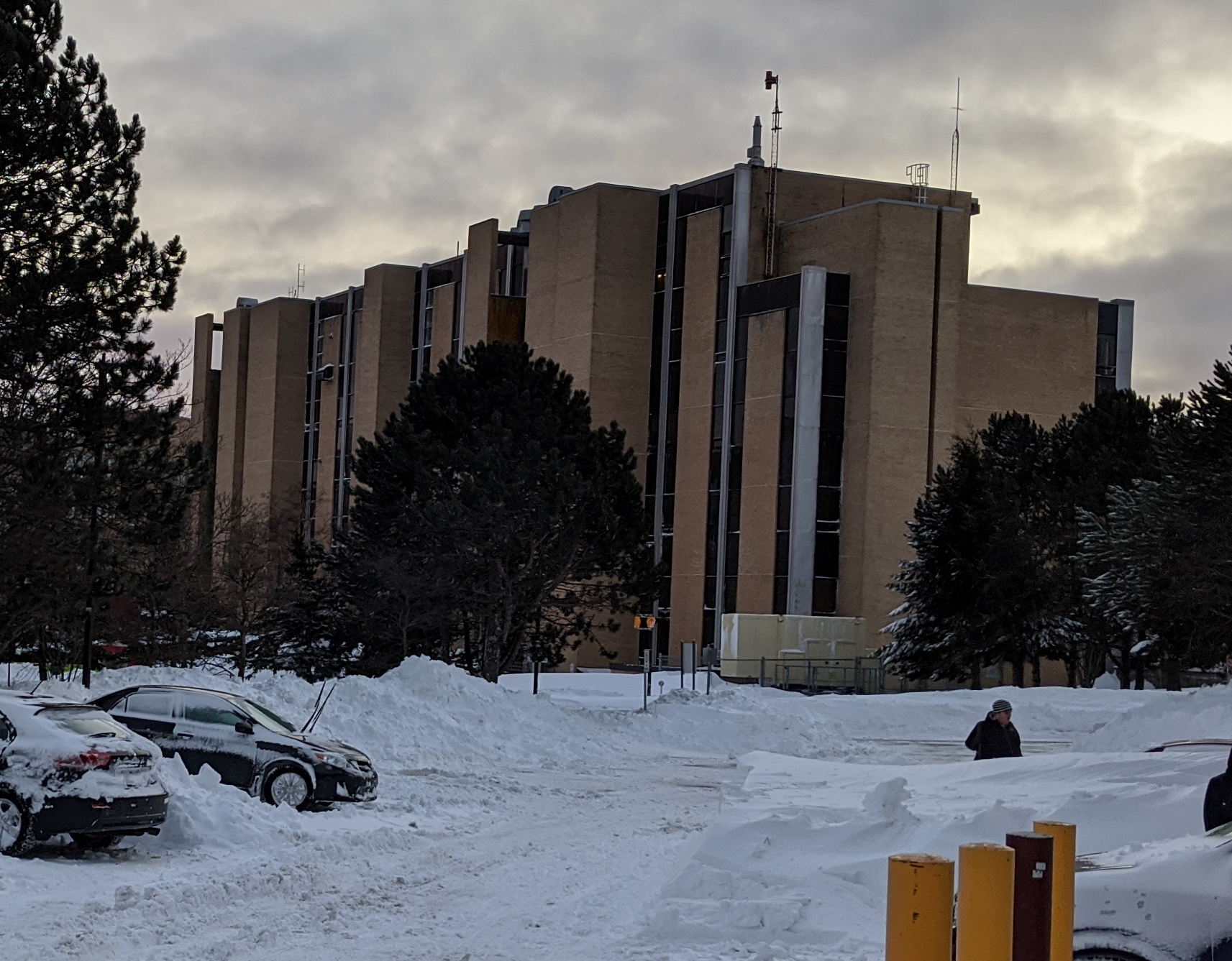 Chemistry Building @ Memorial University - as of 2020.01.08.